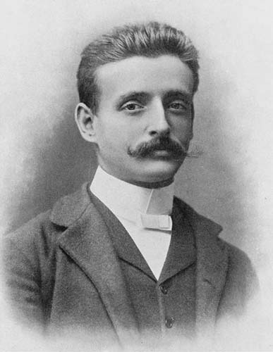 Guido Boggiani (1861-1901)